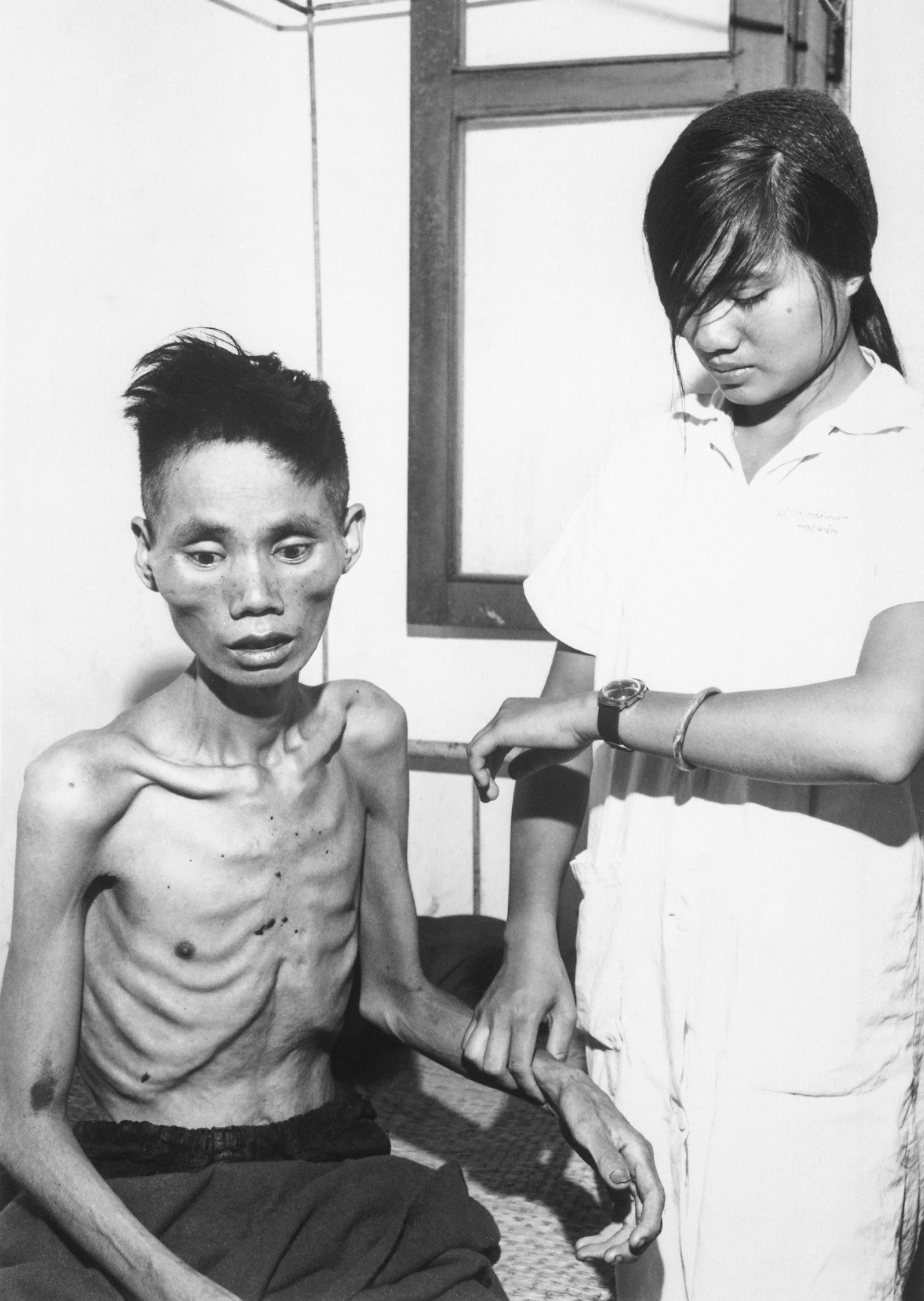 The effects of just one month spent in a Viet Cong prison camp show on 23-year-old Le Van Than, who had defected from the Communist forces and joined the Government side, was recaptured by the Viet Cong and deliberately starved.